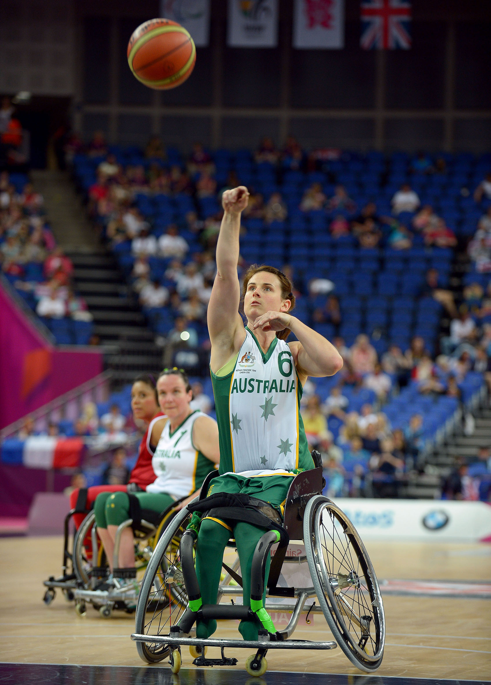 Photograph of Australian Paralympic team member Bridie Kean at the 2012 Summer Paralympic Games in London